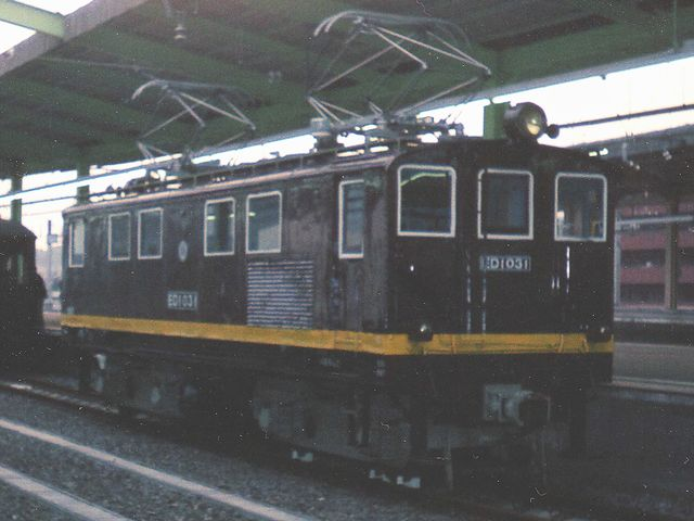 Electric locomotive of Odakyu Electric Railway co. ED1031